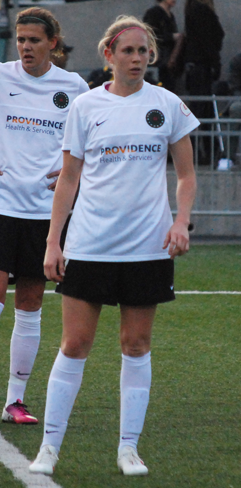 Nikki Marshall during a match between Portland Thorns FC and Seattle Reign FC on May 25, 2013 in Tukwila, Washington